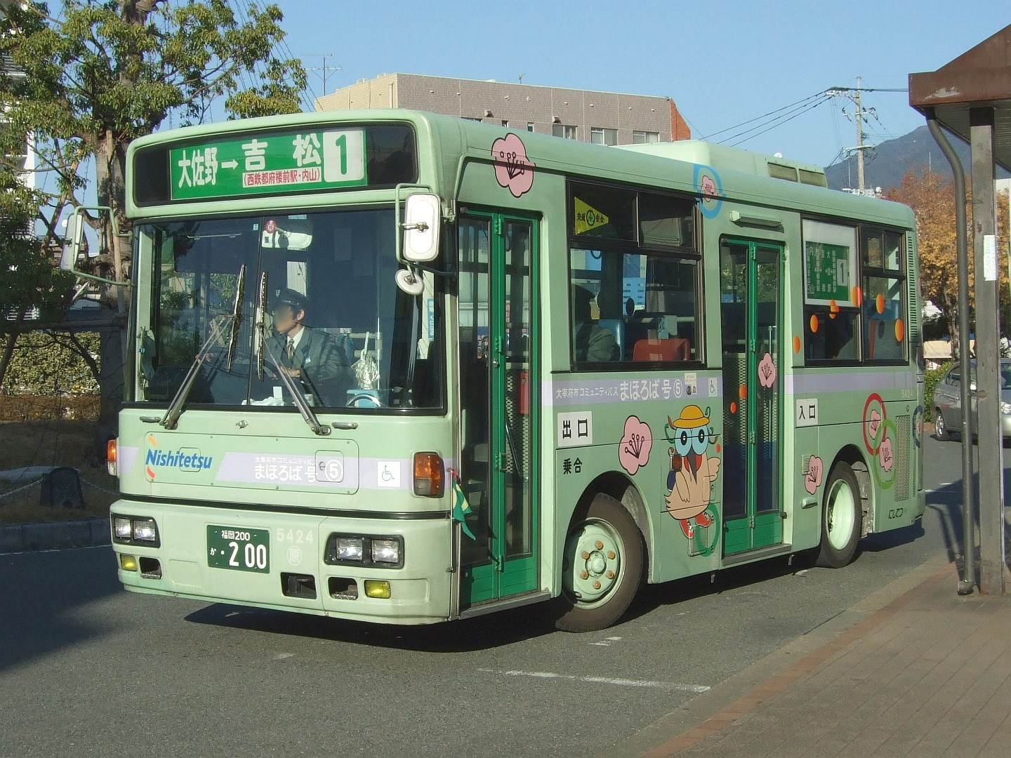 Dazaifu City Community Bus "Mahoroba-go" operated by Nishitetsu Bus Futsukaichi Haru Depot #5424 (Nissan Diesel RN KC-RN210CSN with Nishi-Nippon Shatai Kogyo body, Fukuoka 200 KA 200) at Dazaifu Station in Dazaifu City, Fukuoka Prefecture, Japan